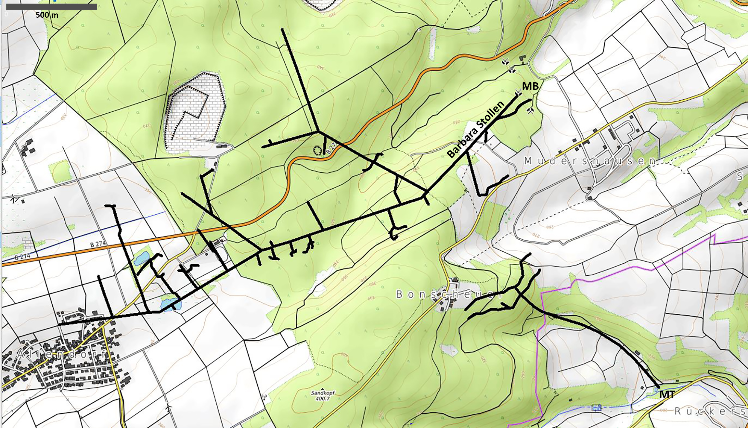 Grube Zollhausː adits and galleries of the mine. MBː entrance to main adit (Barbara Stollen), MTː entrance to main adit Grube Bonscheuer.